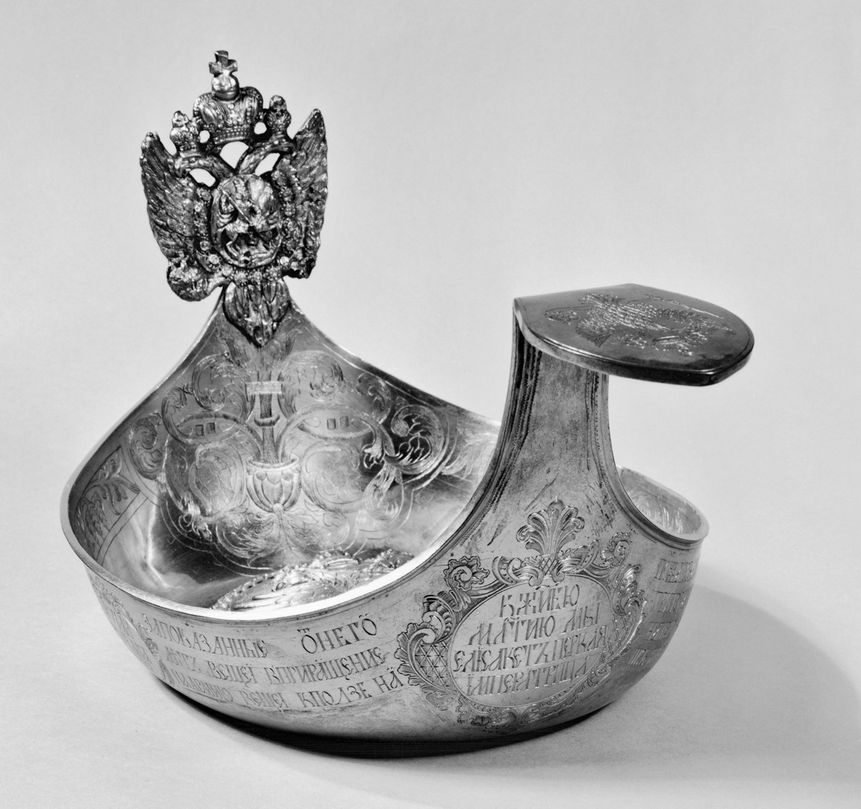 "Kovshi" are boat-shaped bowls or ladles, originally made of wood, which can be traced back to the 14th century. This piece carries the double-headed eagle, state emblem of the Russian Empire. By the 18th century, large drinking bowls like this one were were no longer used as actual tableware but were rather awarded as gifts by the sovereign and proudly displayed at home by their recepients. The inscription notes that Empress Elizabeth I (1709-1762) presented this sumptuous example to the merchant Konan Saveschkov, who had been a contractor for the army since 1752.